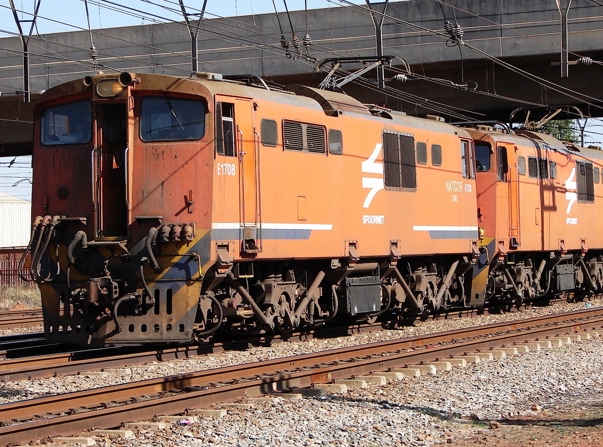 SAR Class 6E1 Series 6 no. E1708 Location: Kaalfontein, Gauteng Rebuilding: No. E1708 re-entered service in 2013 after being rebuilt to Class 18E no. 18-757